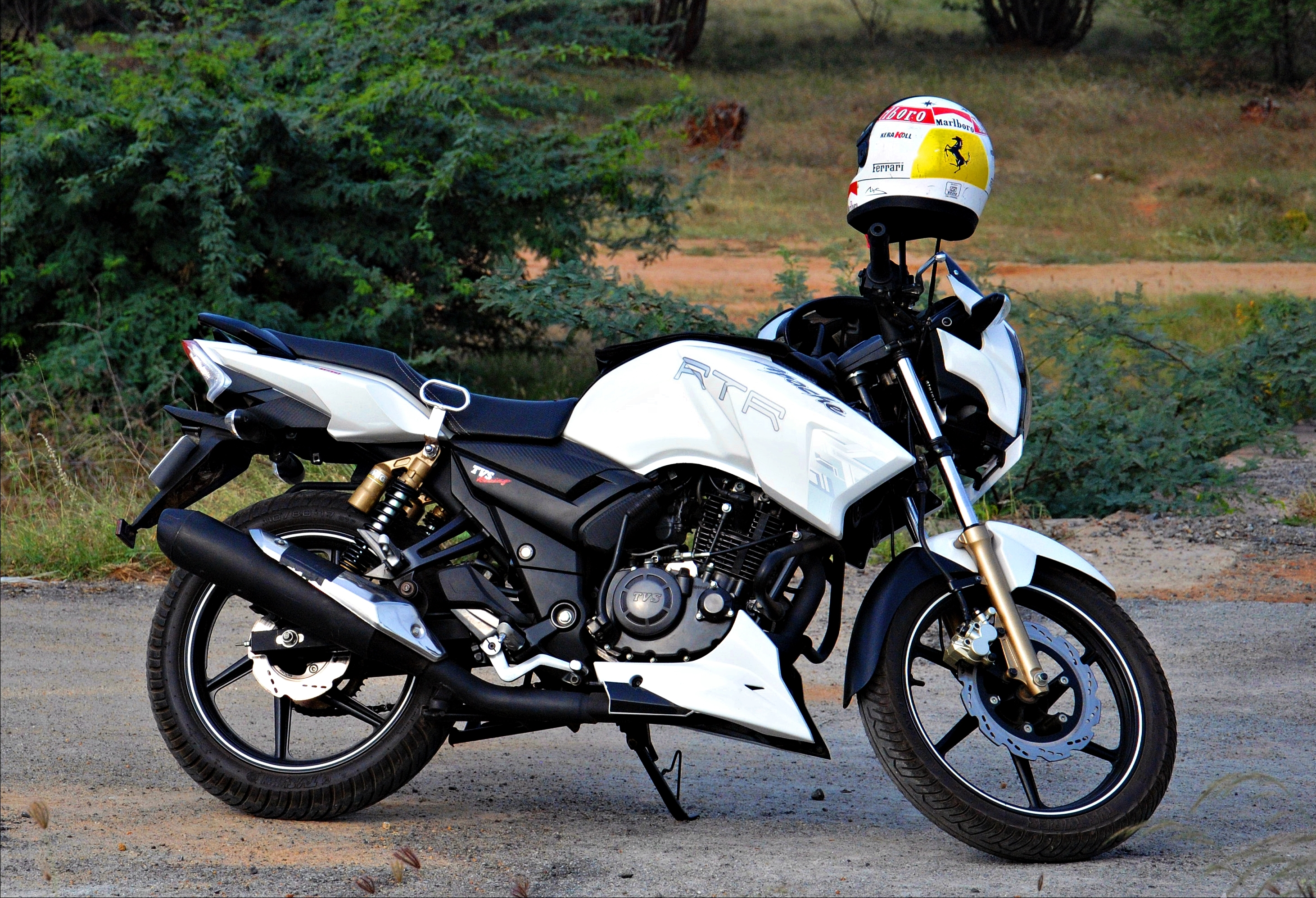 The TVS Apache RTR 180 Version2